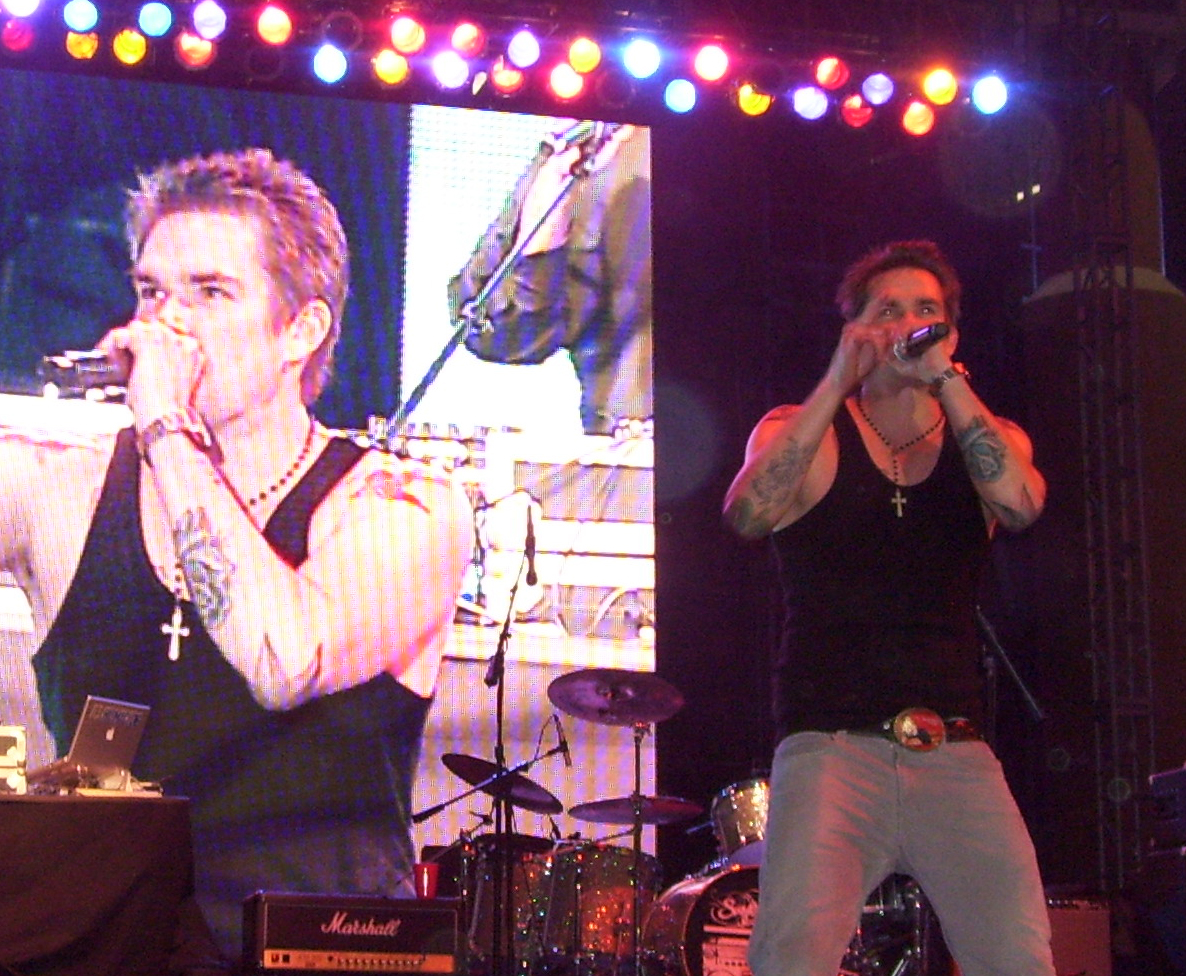 Mark McGrath on October 27, 2007 performing with Sugar Ray in Glendale, AZ.